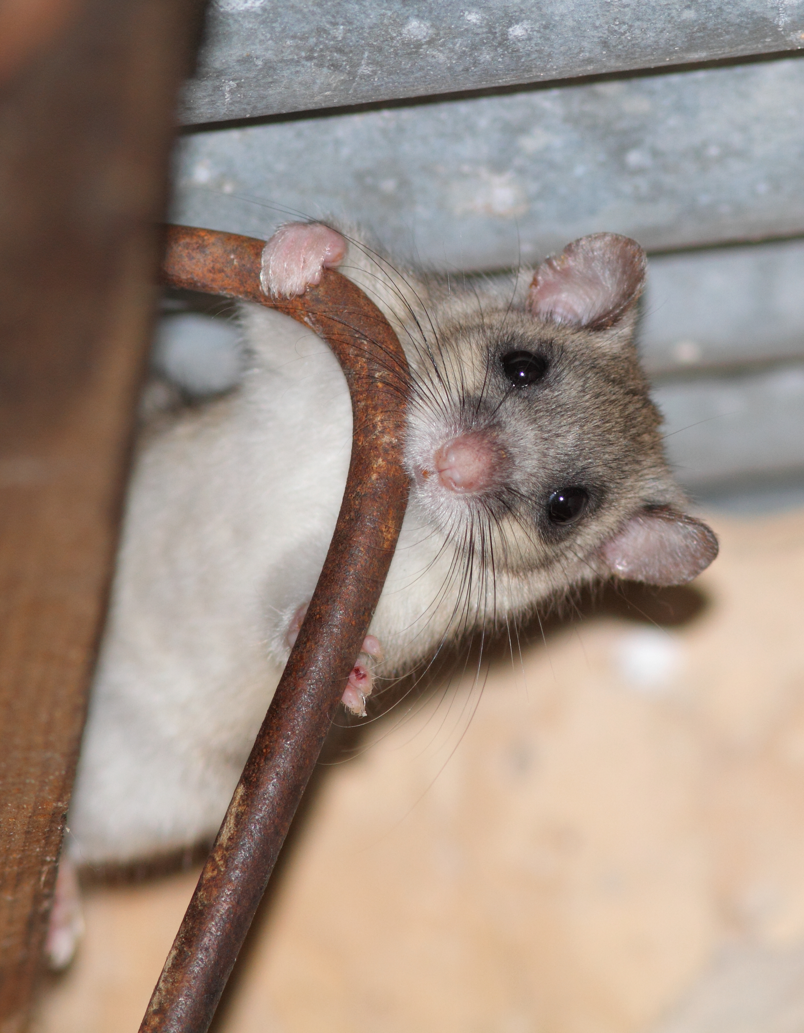 Edible dormouse (Glis glis) in an old shed in an abandoned plum orchard in Luc-en-Diois, France.